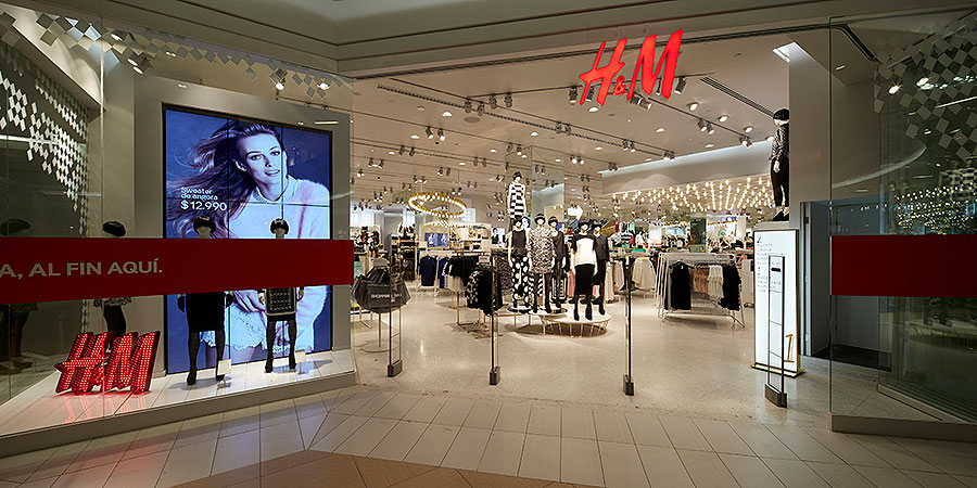 H&M Store in Costanera Center Shopping, Santiago, Chile.